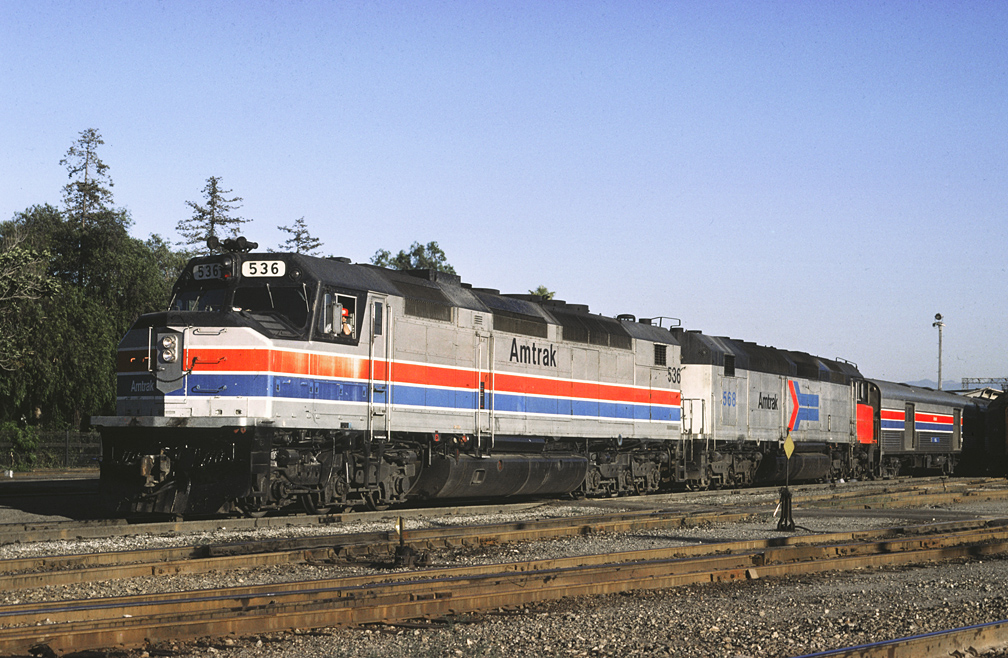 Amtrak #536 leading the Coast Starlight Train #14 out of San Jose. The slide has no date stamp but I am guessing summer of 1977